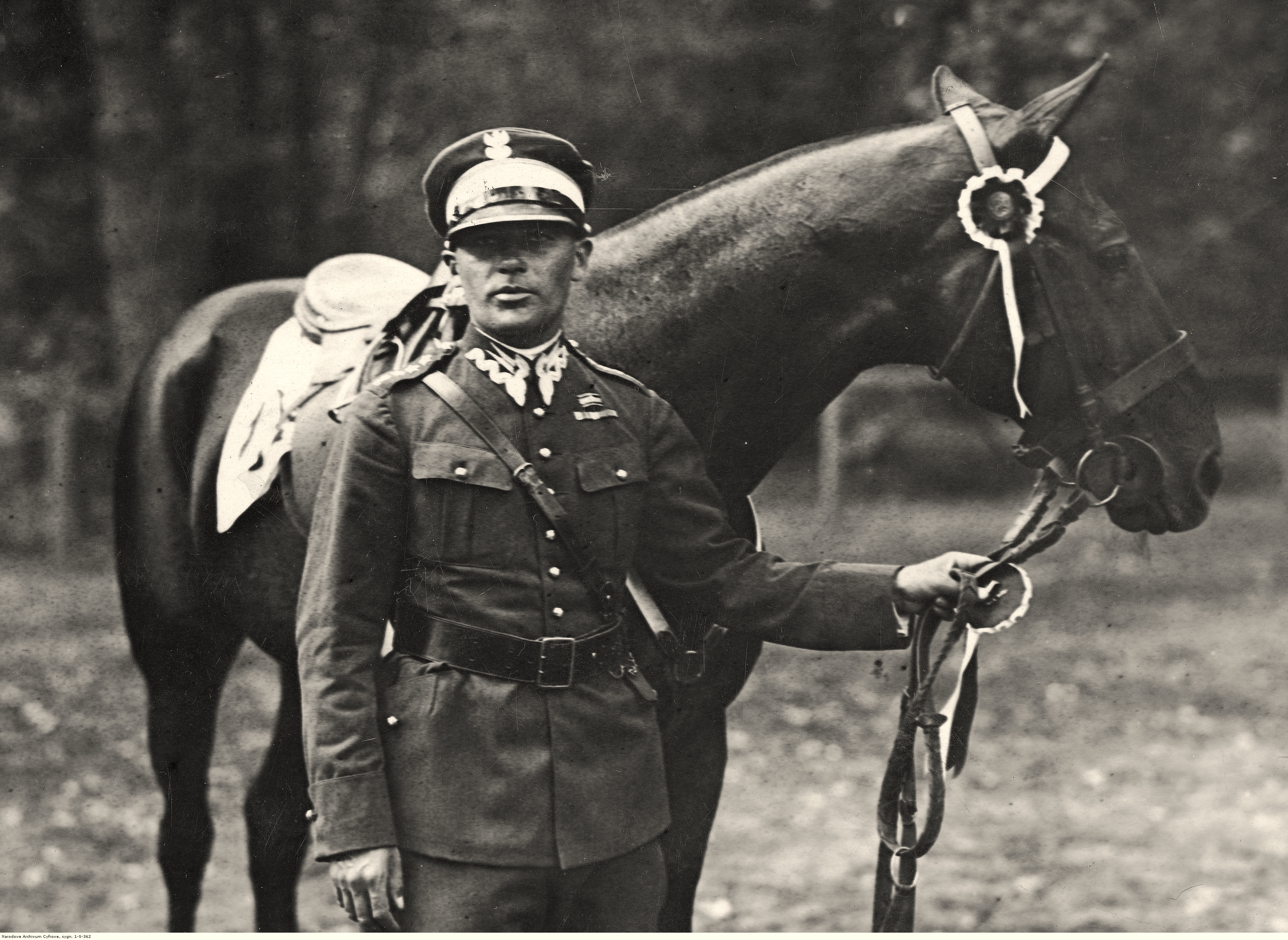 Michał Woysym-Antoniewicz (1897-1989) - Polish equestrian who competed in the 1928 Summer Olympics, won silver and bronze medals. Major of the Polish Army.